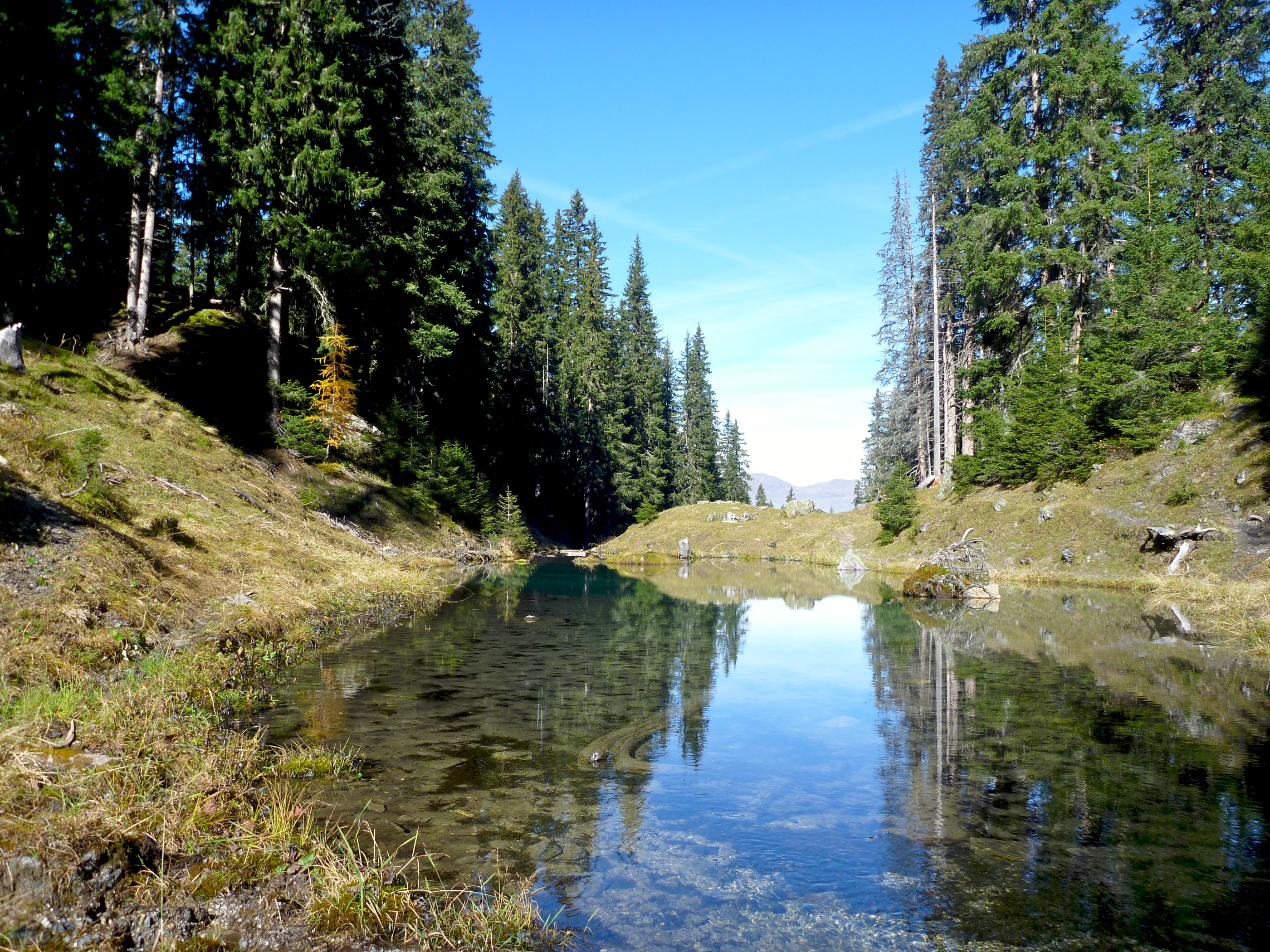 the upper Grünsee at Arosa